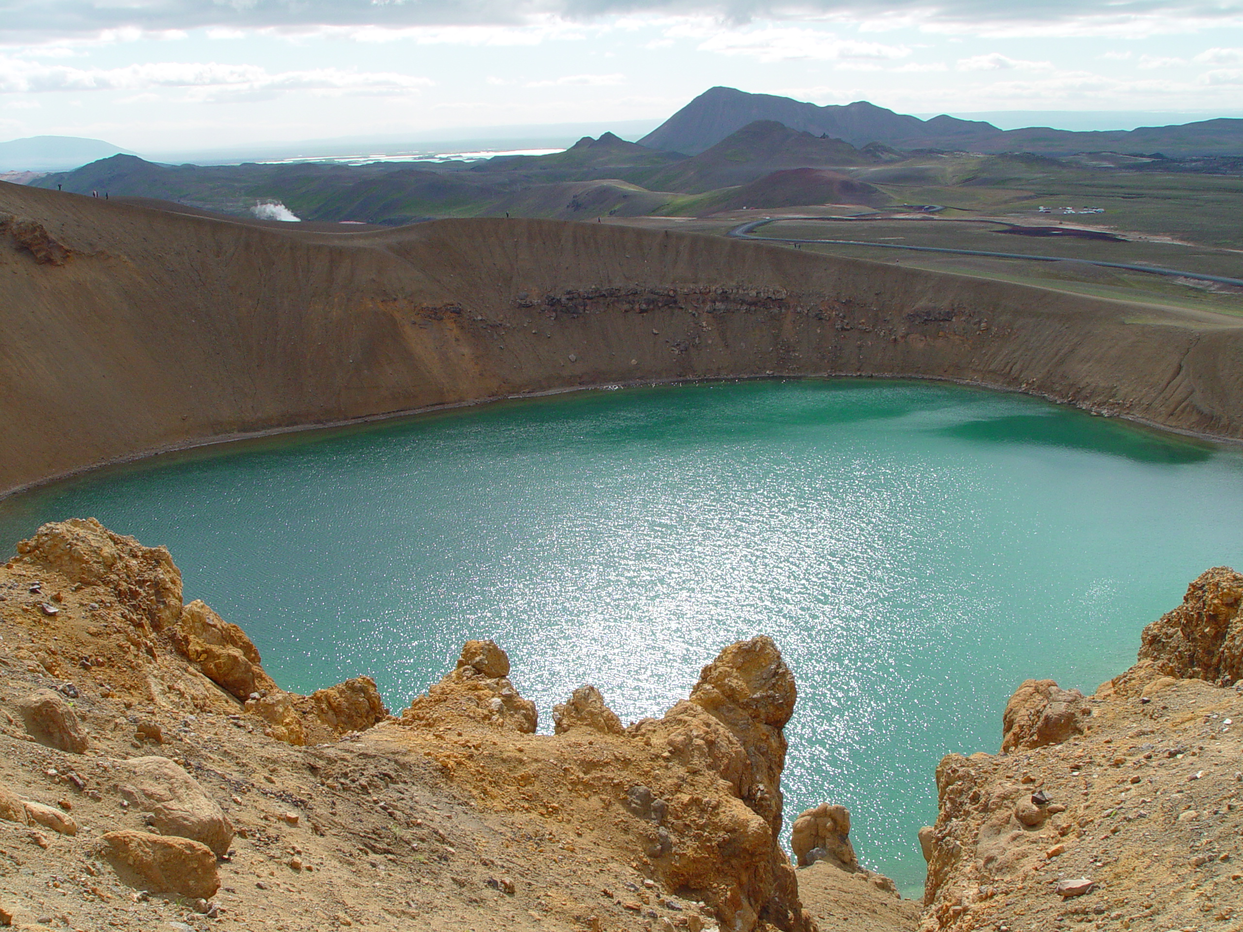 Víti, part of Krafla, Iceland; lake Myvatn in the far background.